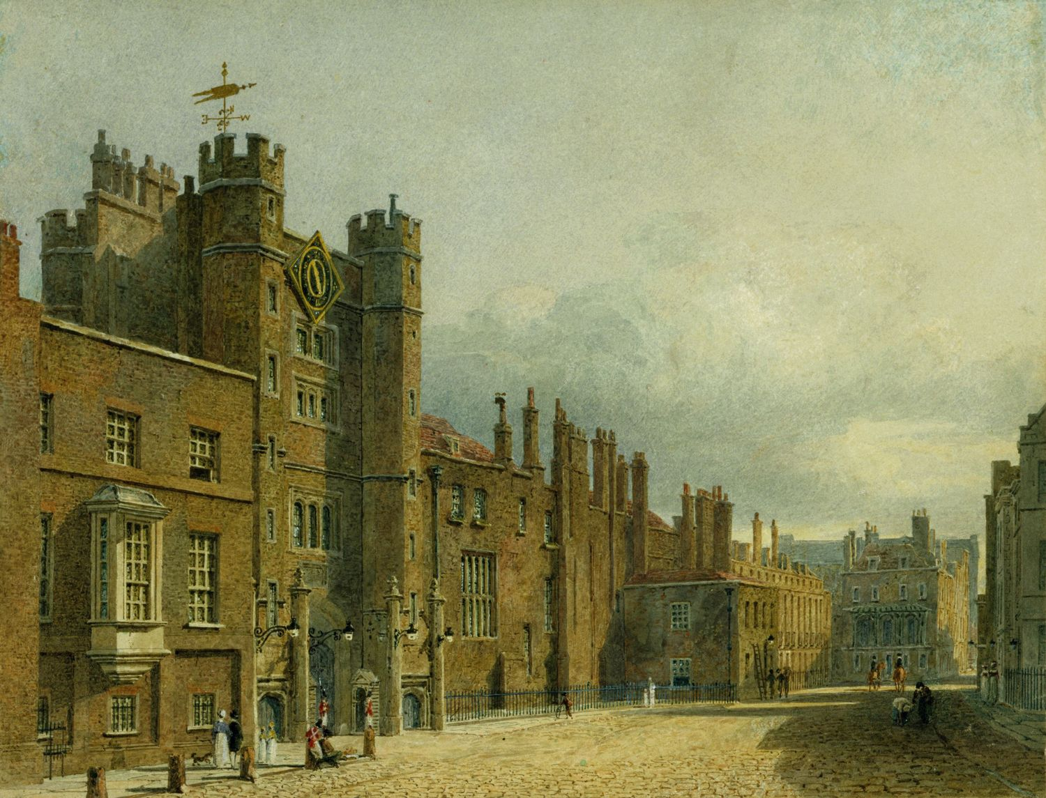 A view of the north front of St James's Palace The aquatint engraving of this picture was published as plate 69 of W.H. Pyne (1819), The History of the Royal Residences